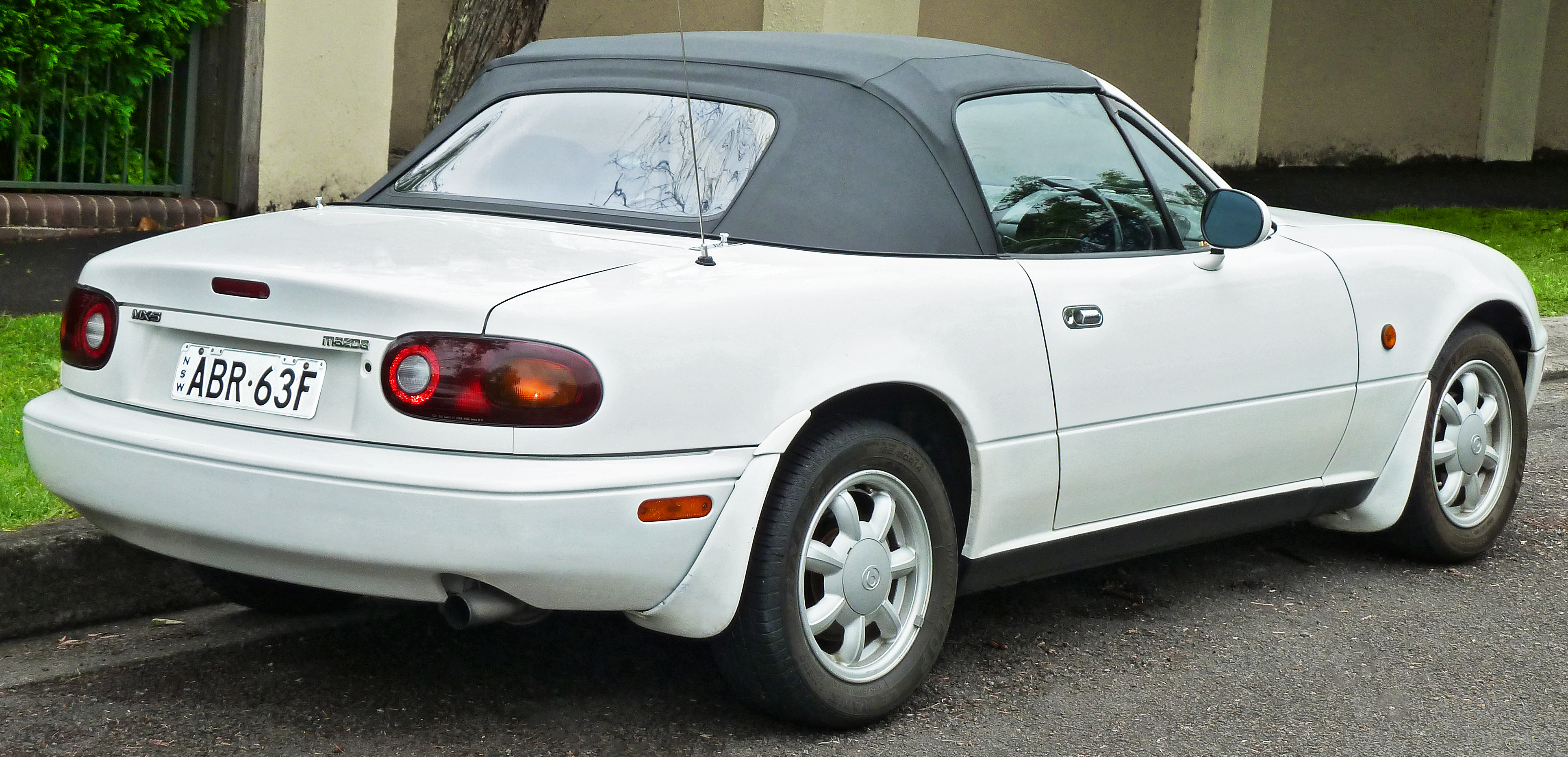 1993 Mazda MX-5 (NA) roadster. Photographed in Lindfield, New South Wales, Australia.